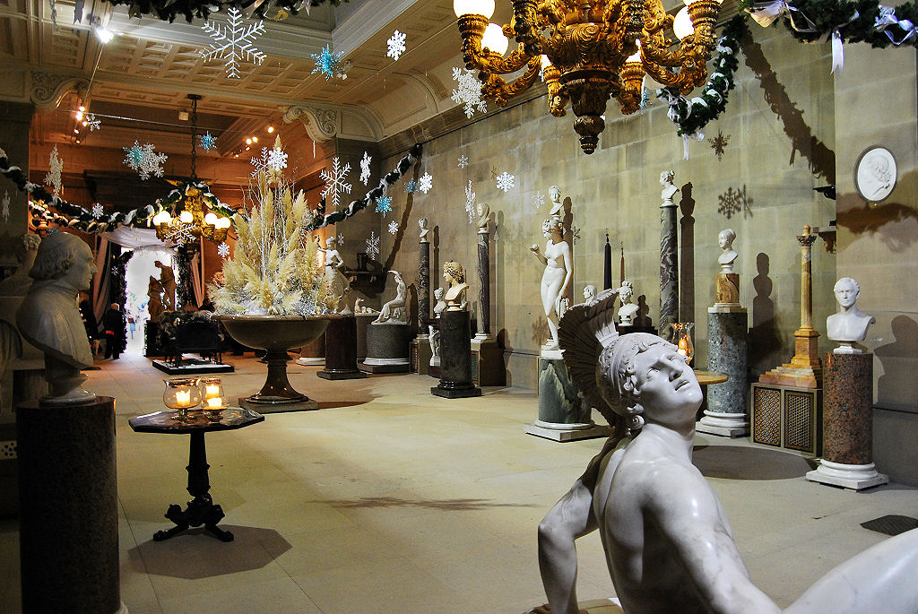 The sculpture gallery at Chatsworth House